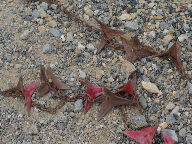 caltrops, connected by a chain, used by the police at roadblocks